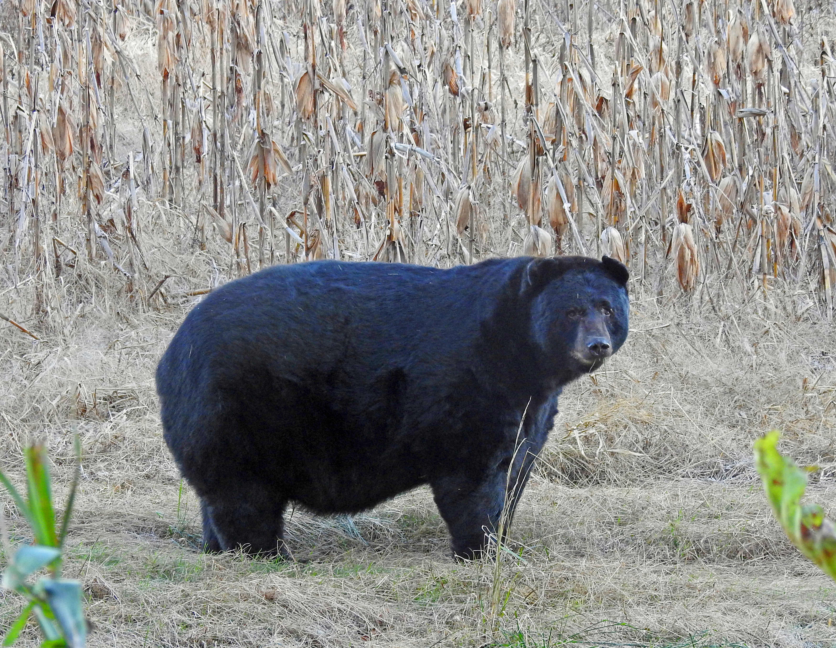 photo of a black bear